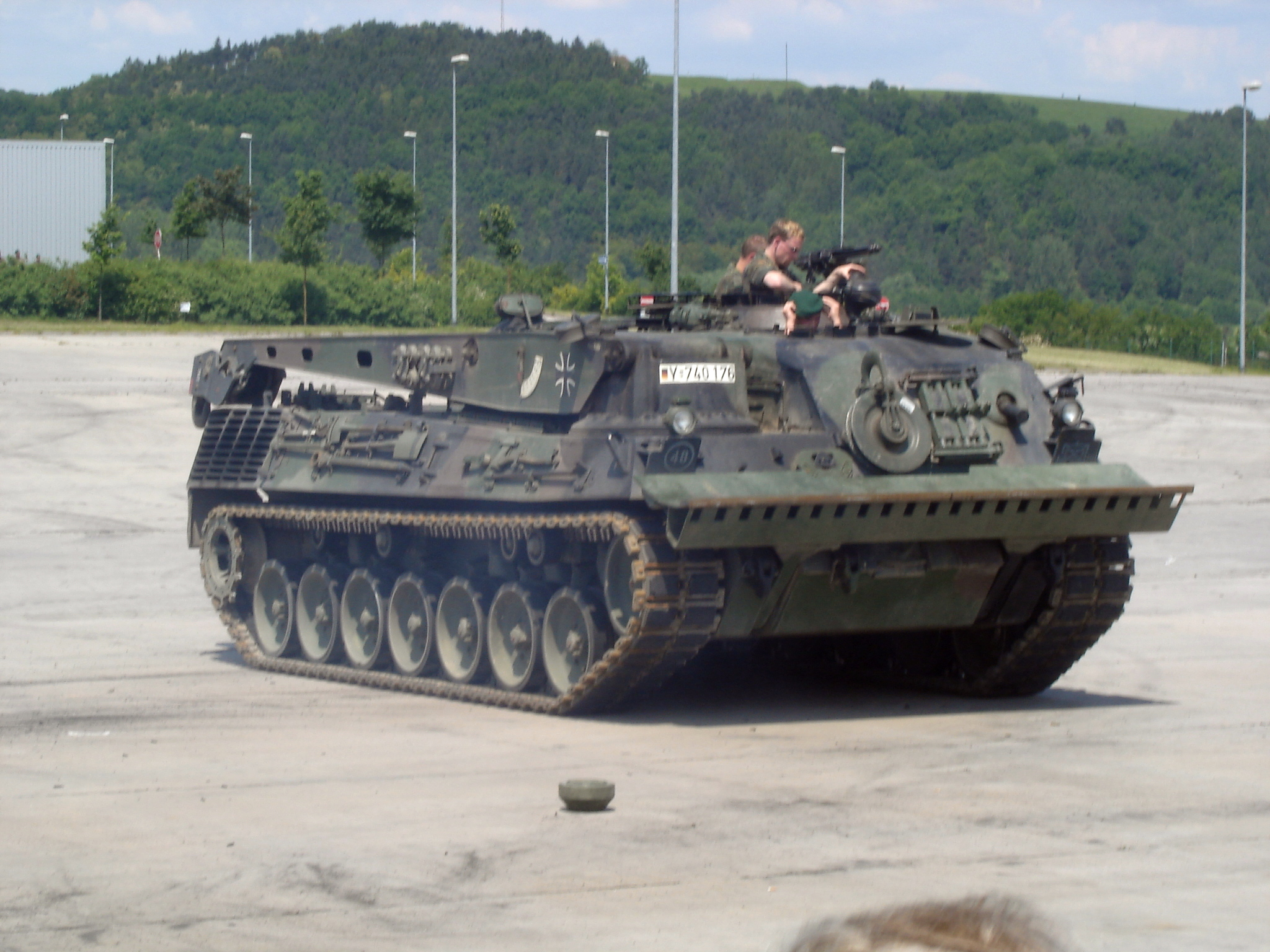 Armoured Recovery Vehicle 2 of the German Army